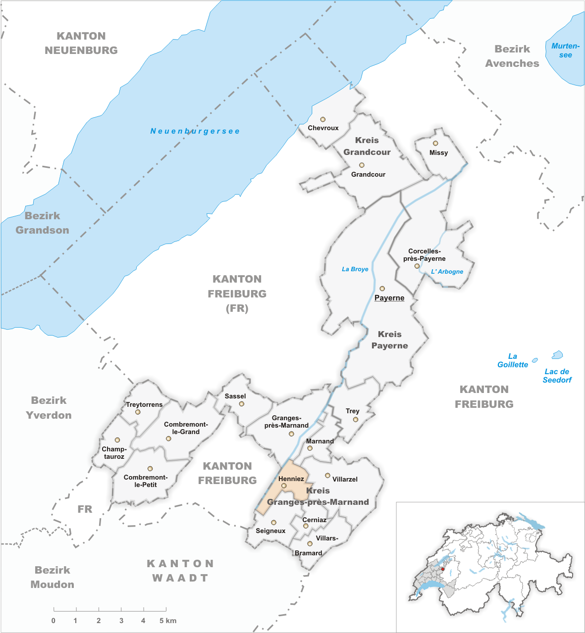 Municipality Henniez